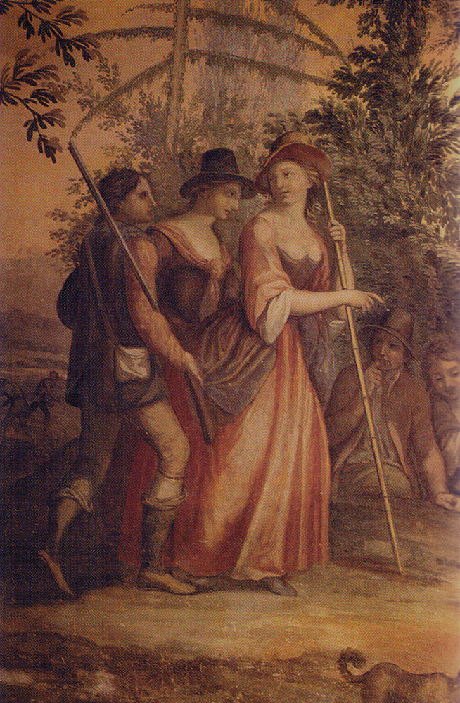 The paysans of Alessandra and Lorenzo Mari following them against napoleonic troops